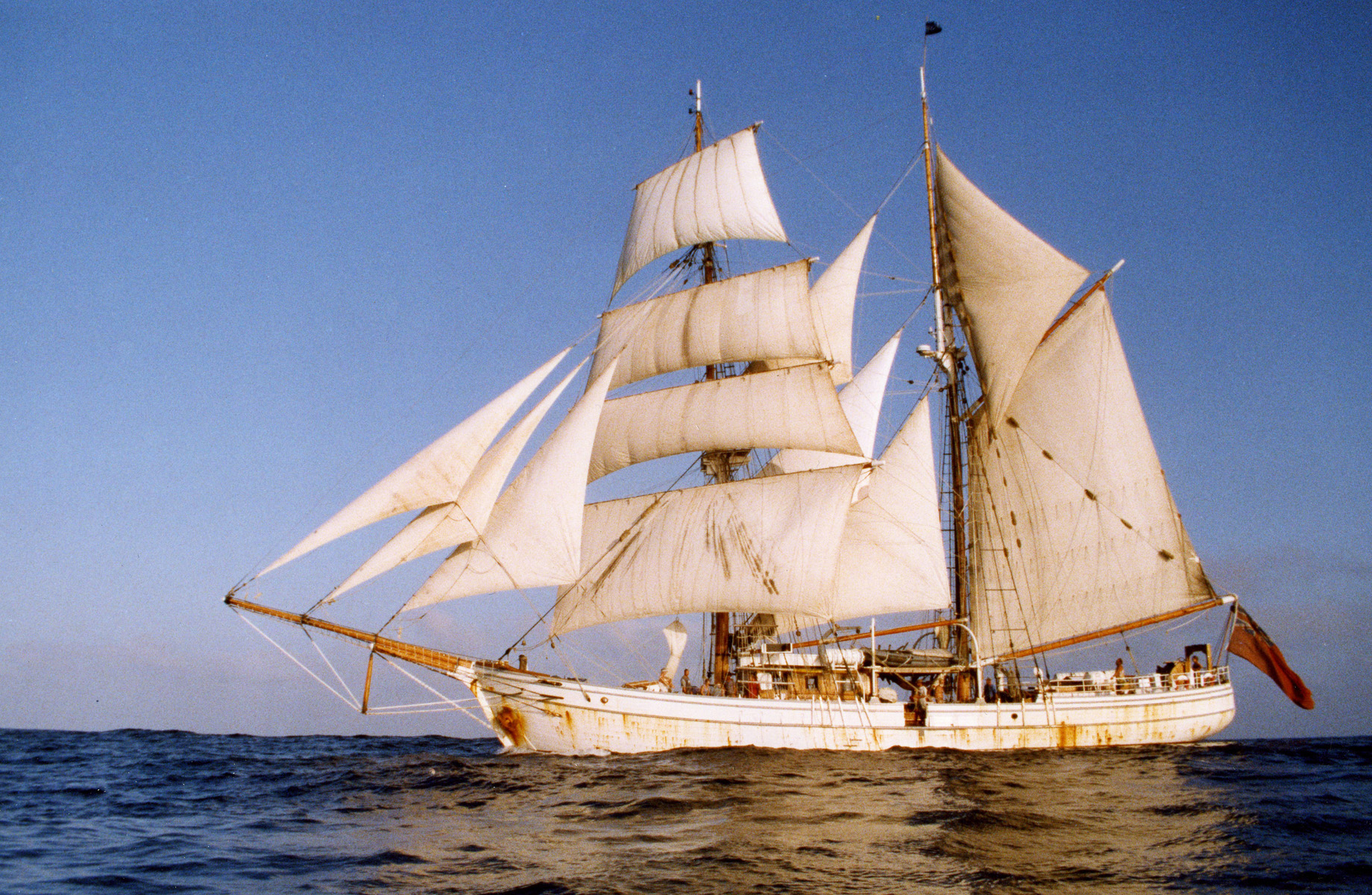 ‚Søren Larsen‘ in 2000 - this was the day te ship crossed the Equator, May 6th, 10:40am, 88 degrees & 35 minutes west.